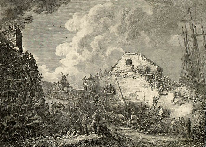 The Galley docks of Suomenlinna fortress during their construction. This version is cropped to show only the image itself